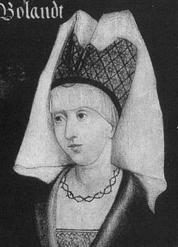 Marie of Brabant (1226–1256)